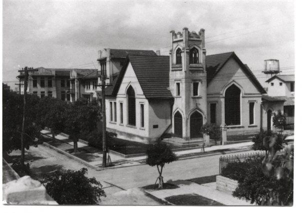 Candler College Chapel. Havana, Cuba.